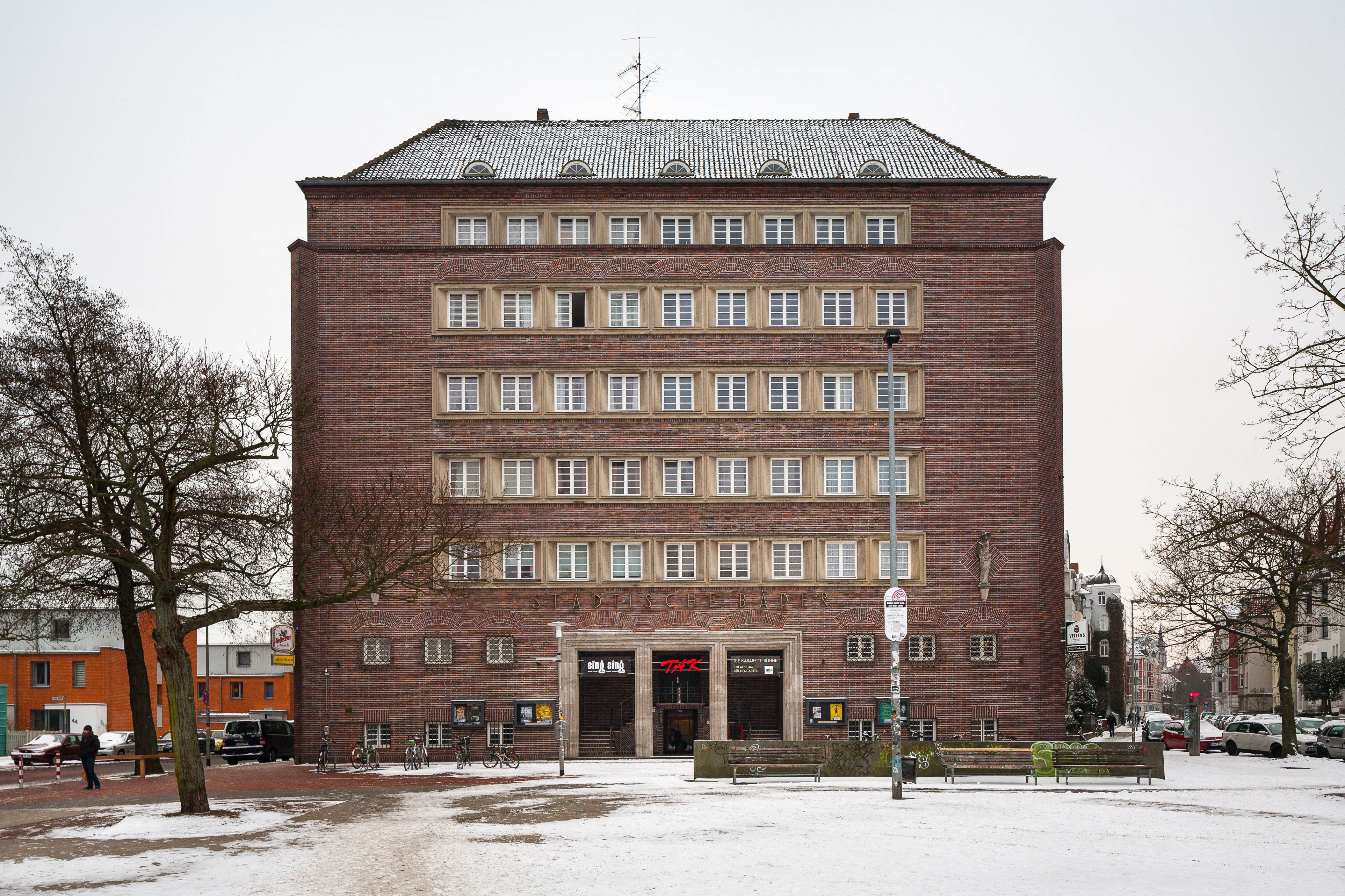 Former public bath house located at Kuechengarten (Linden) in Hanover, Germany.